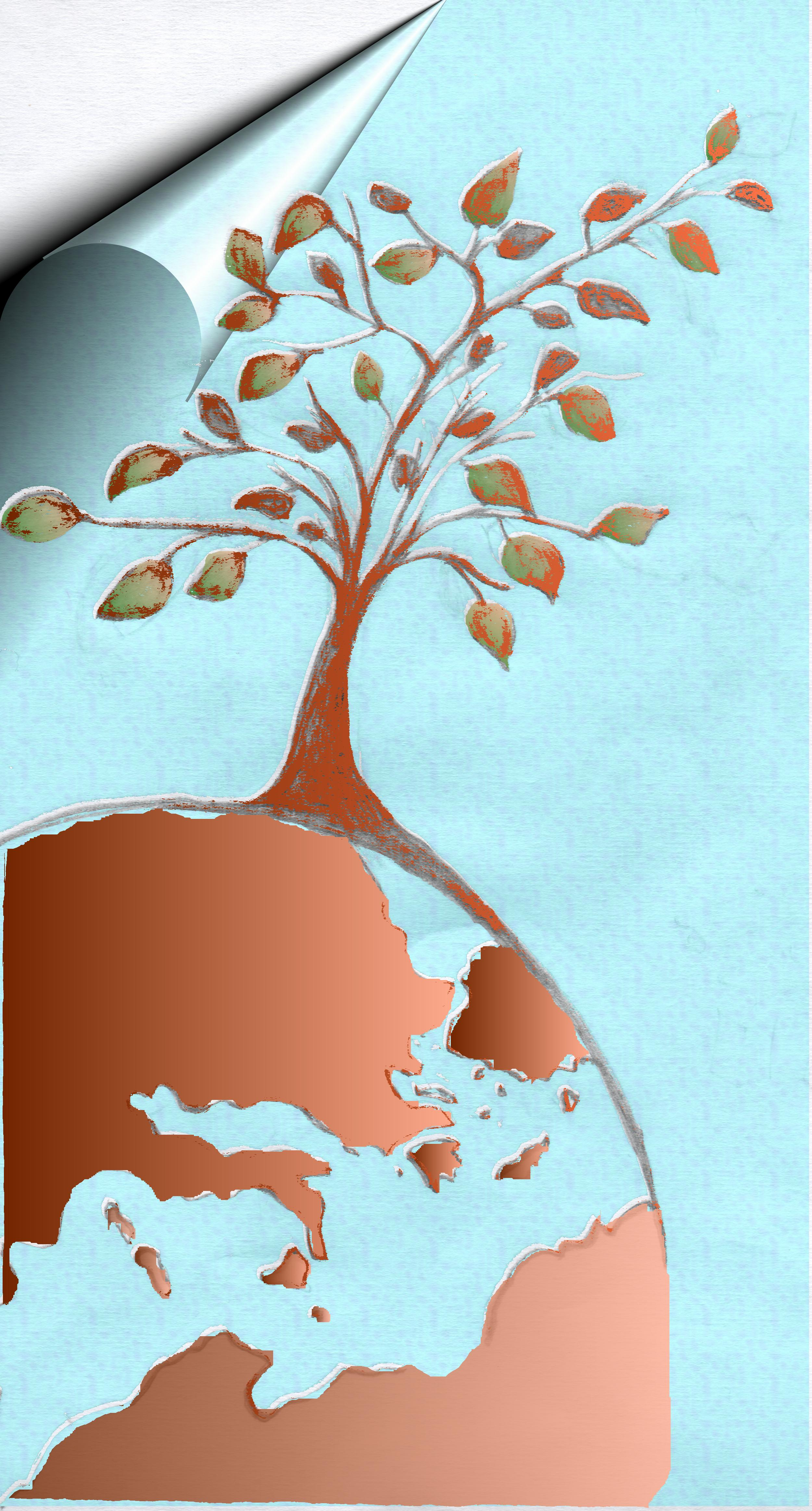 genealogy concept of